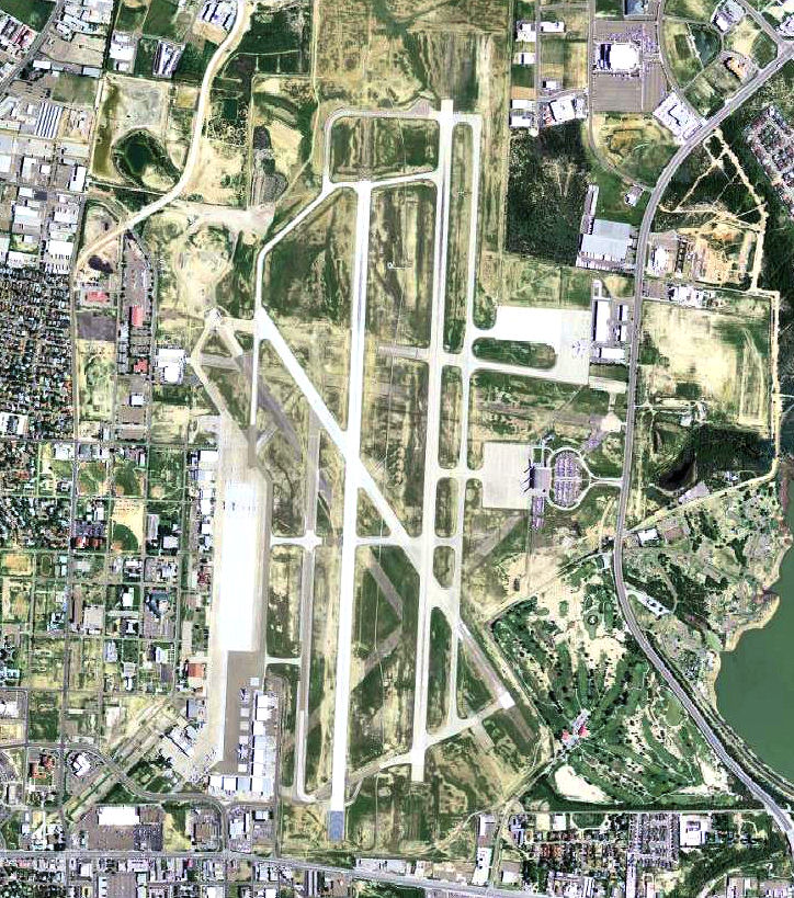 USGS orthophoto of Laredo International Airport, formerly Laredo Air Force Base, in Texas, United States